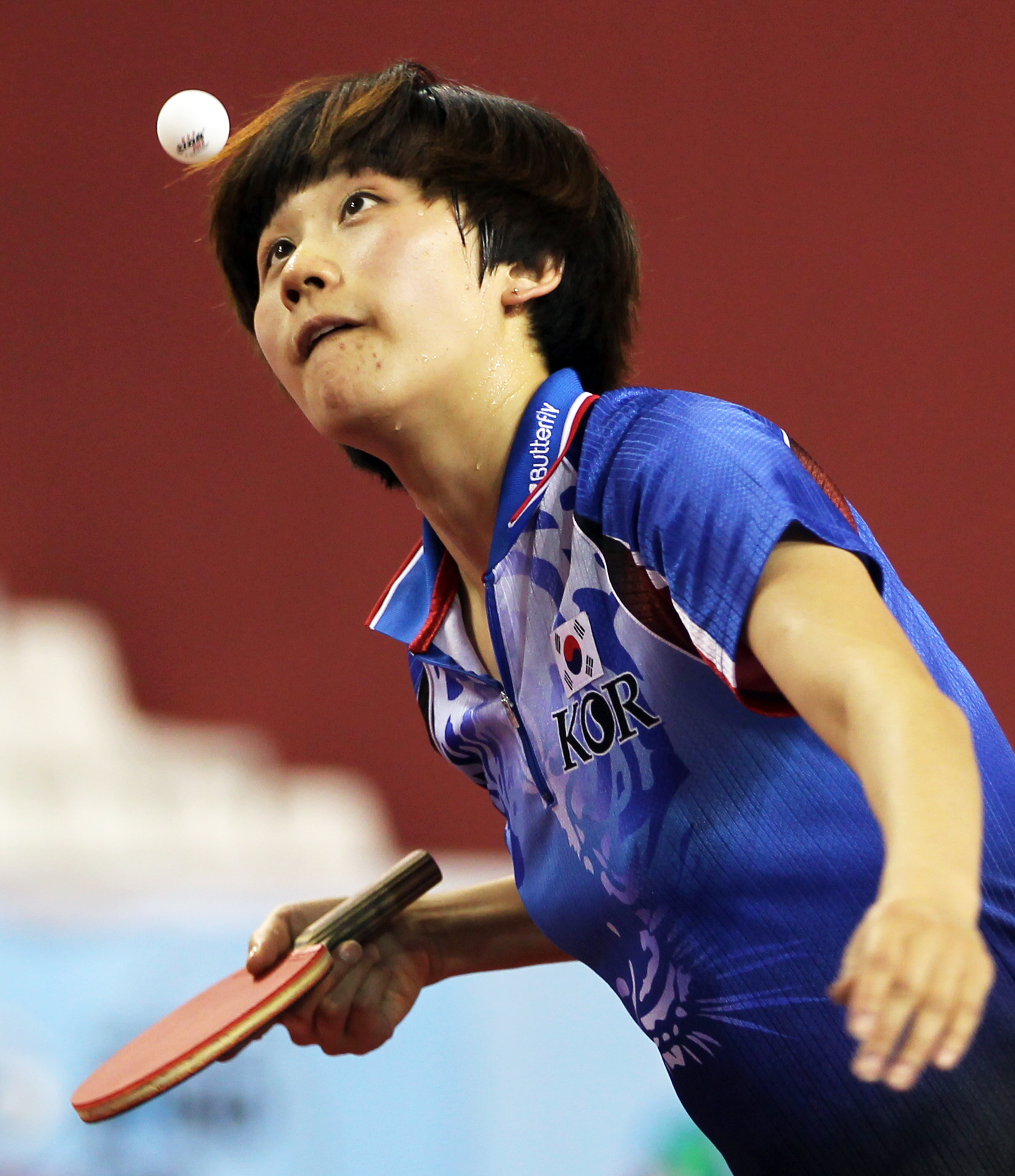 South Korea's Jung Ha-Seok serves against China's Chen Meng in the women's final of the Qatar Open table tennis at the Qatar Women's Sport Committee Indoor Hall. Picture by Mohan